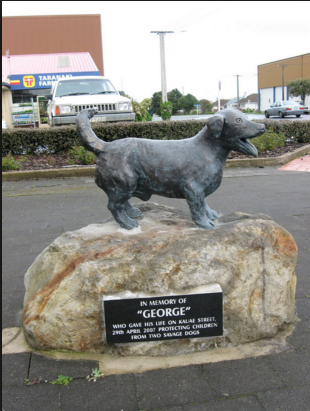 A statue of the brave Jack Russell Terrier, George, in Manaia, Taranaki, New Zealand. He gave his life to protect that of others.